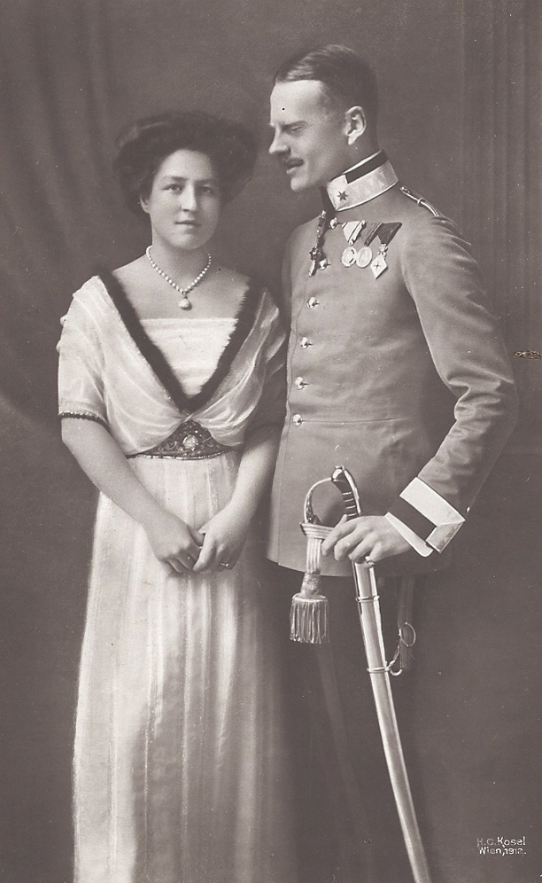 Isabella, Archduchess of Austria-Teschen (1887–1973) with her husband